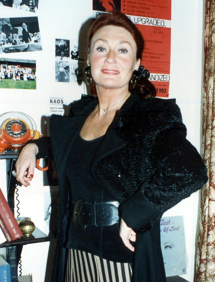 Swedish actress Berit Carlberg, as released by image creator Lars Jacob ProdPlace: Stage Freight, Skeppsbron 24, Stockholm, Sweden